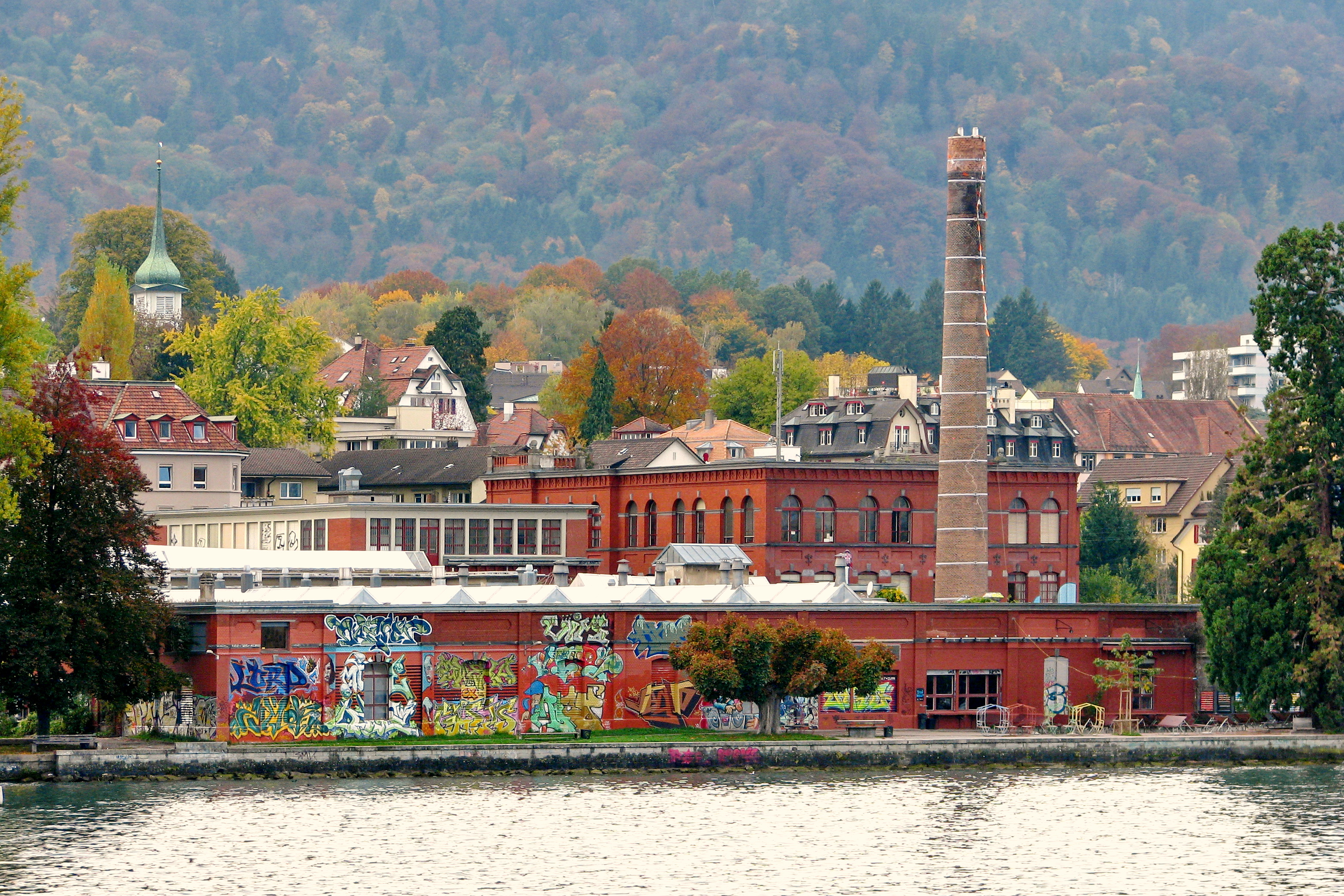 Zürich-Wollishofen : So-called 'Rote Fabrik' as seen from the northeast (Lake Zürich)